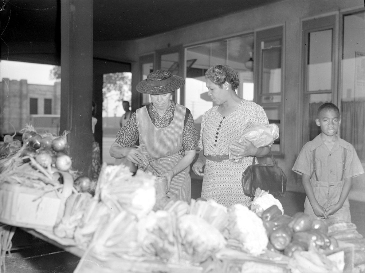 For documentary purposes the original description provided by BAnQ has been retained. Additional descriptive text may be added by Wikimedians with the wiki description = parameter, but please do not modify the other fields.